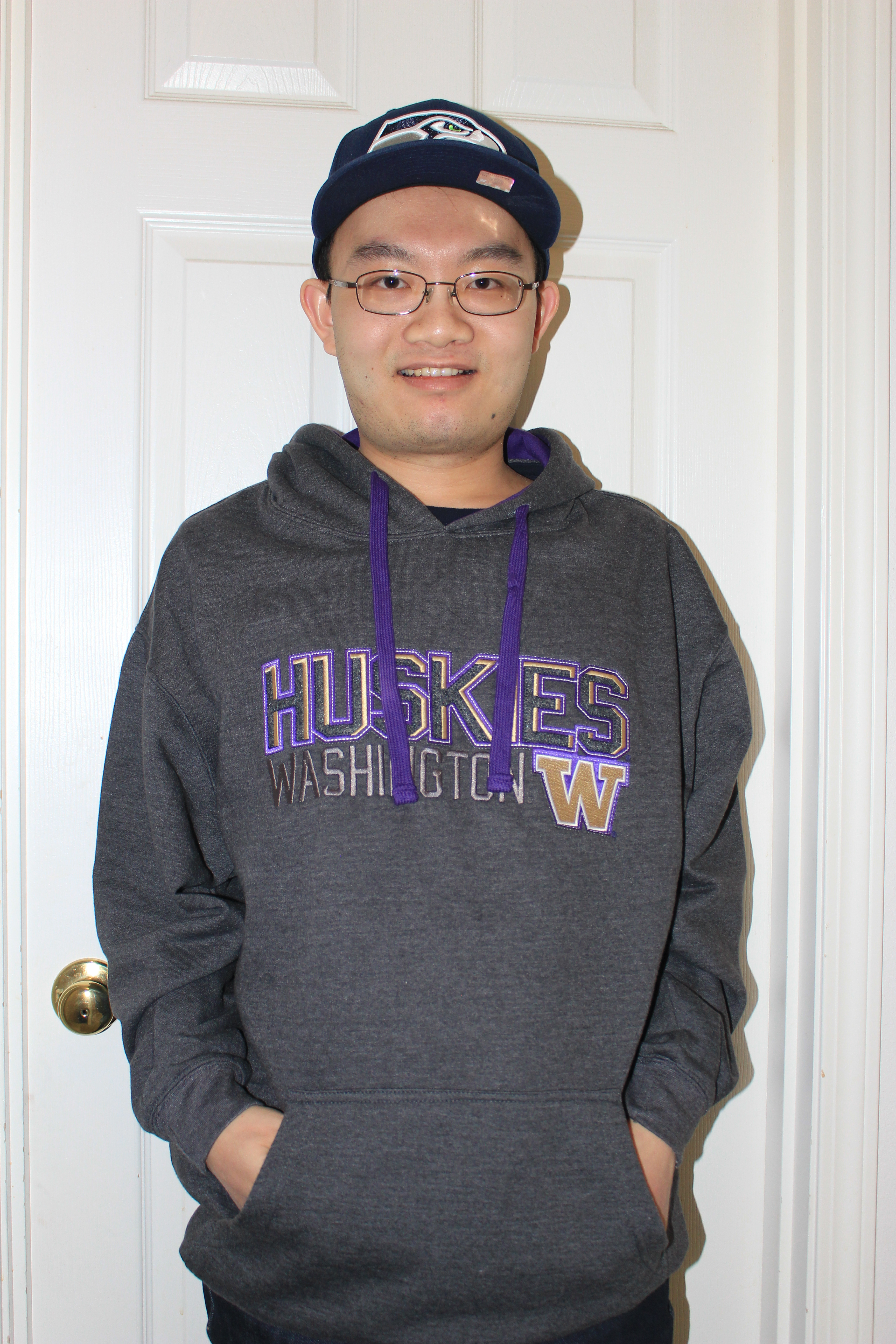 Self, for userpage